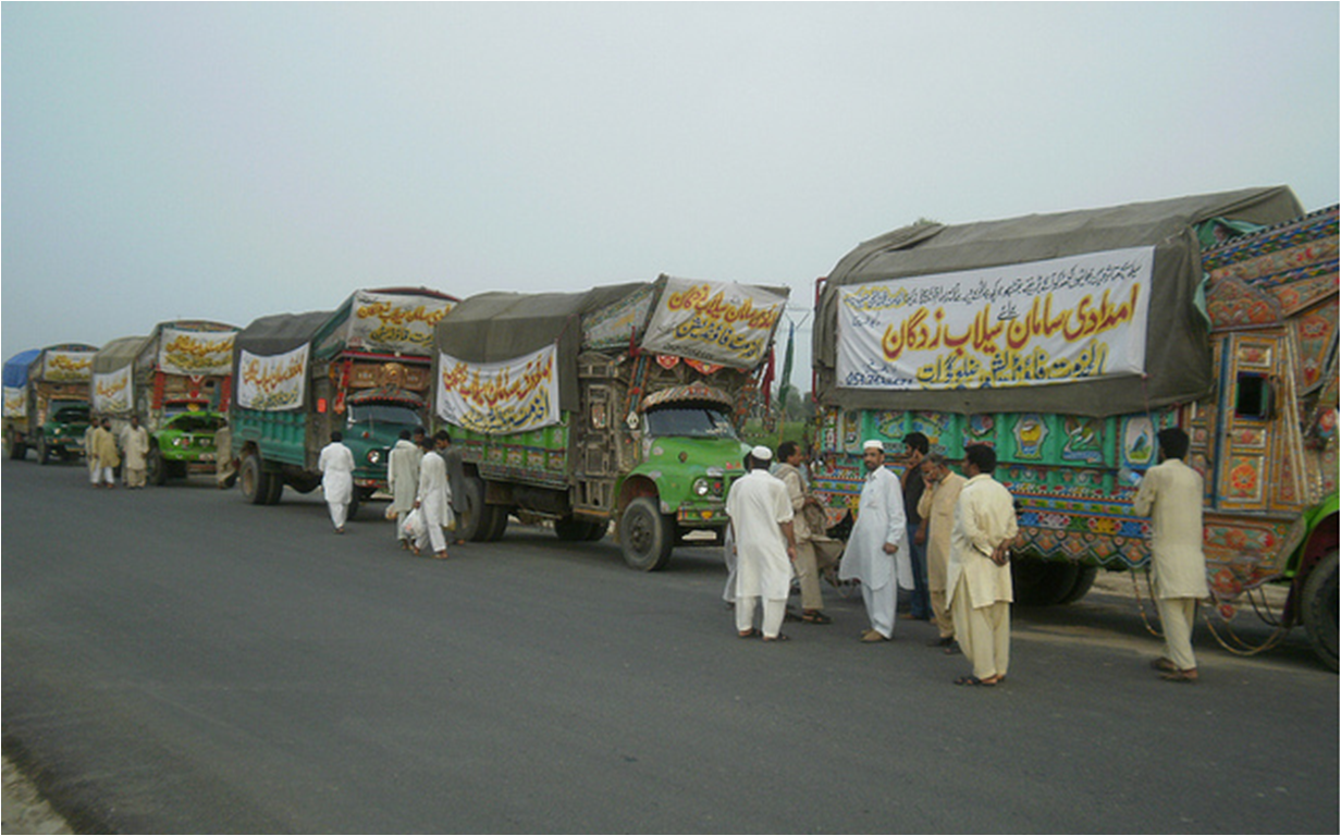 Relief trucks